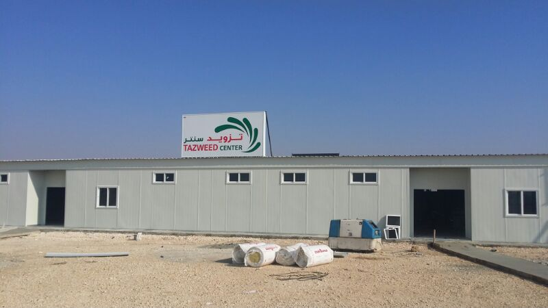 Image off Tazweed Supermarket in Zaatari Refugee Camp, Mafraq, Jordan